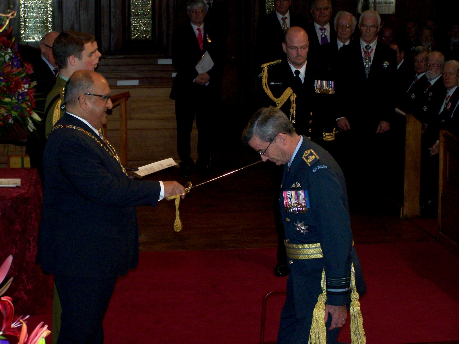 Investiture of Sir Bruce Ferguson as KNZM, by the governor-general, Sir Anand Satyanand, at Old St Paul's, Wellington, on 14 August 2009